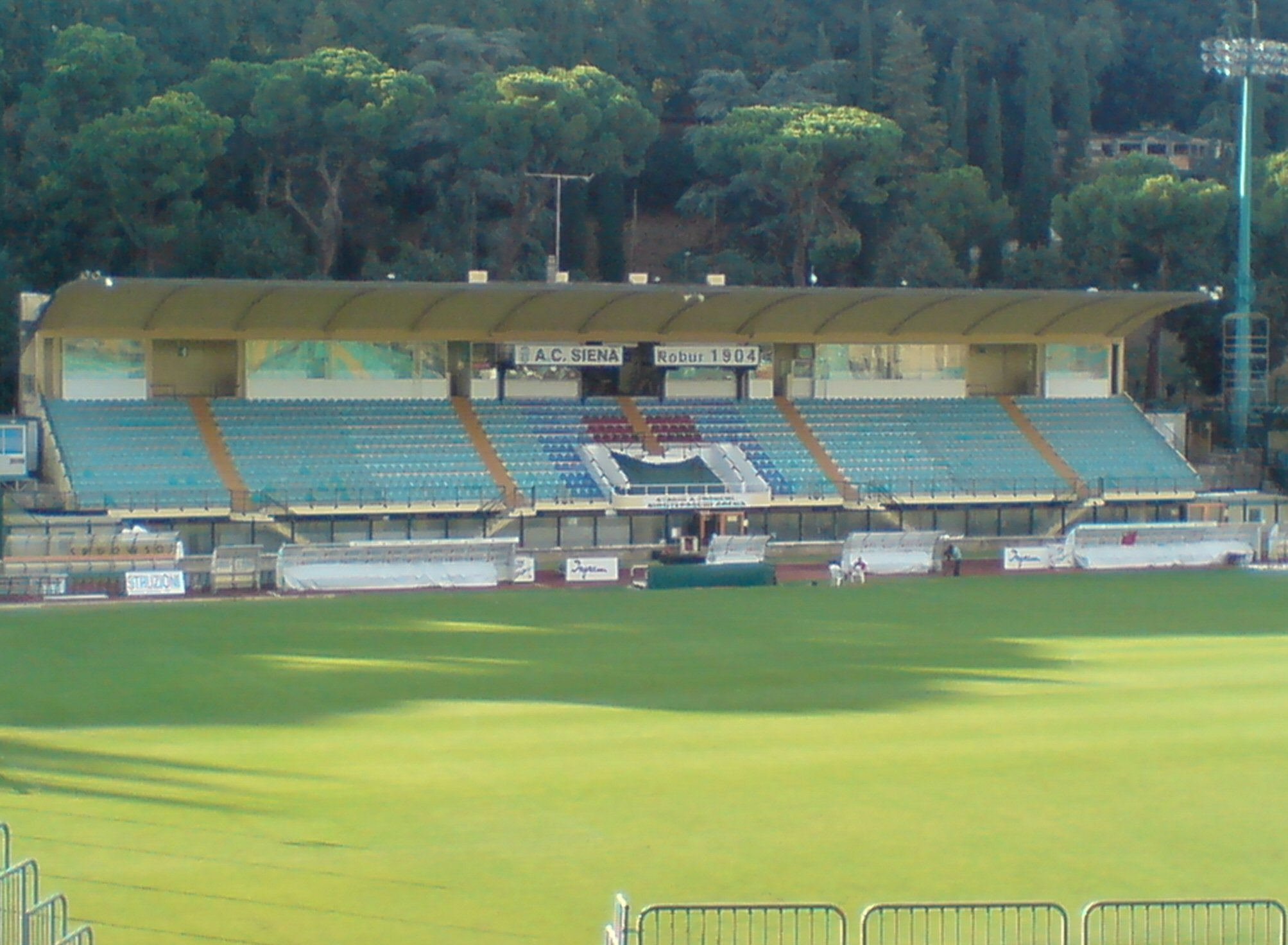 The main stand in Stadio Artemio Franchi (Siena)